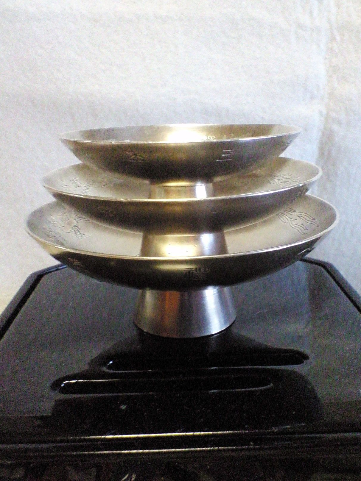 Memorial silver cup of Shōwa tennō's Enthronement ceremony(1928) .